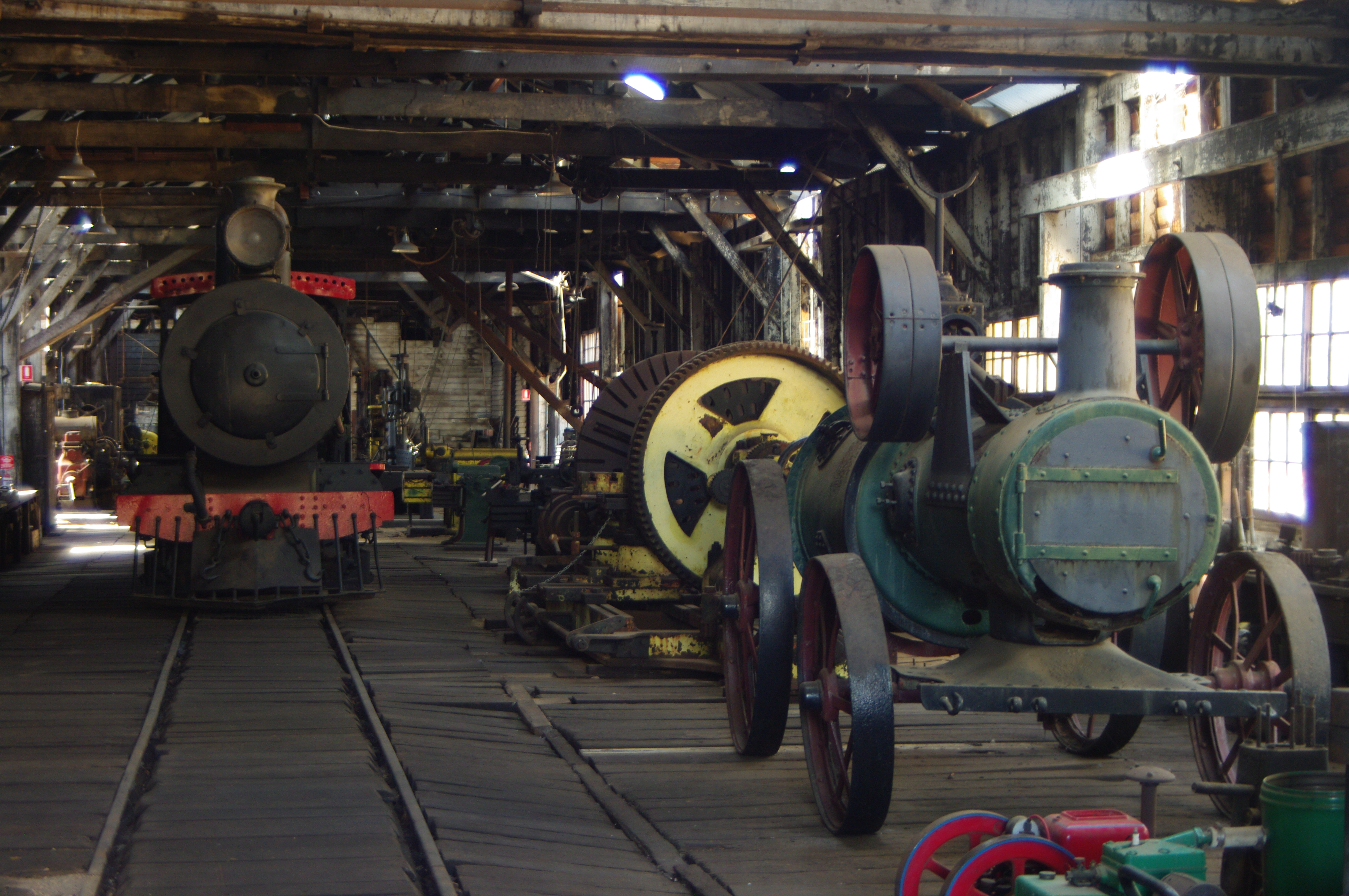 Yarloop railway workshops Yarloop, Western Australia Steam engines